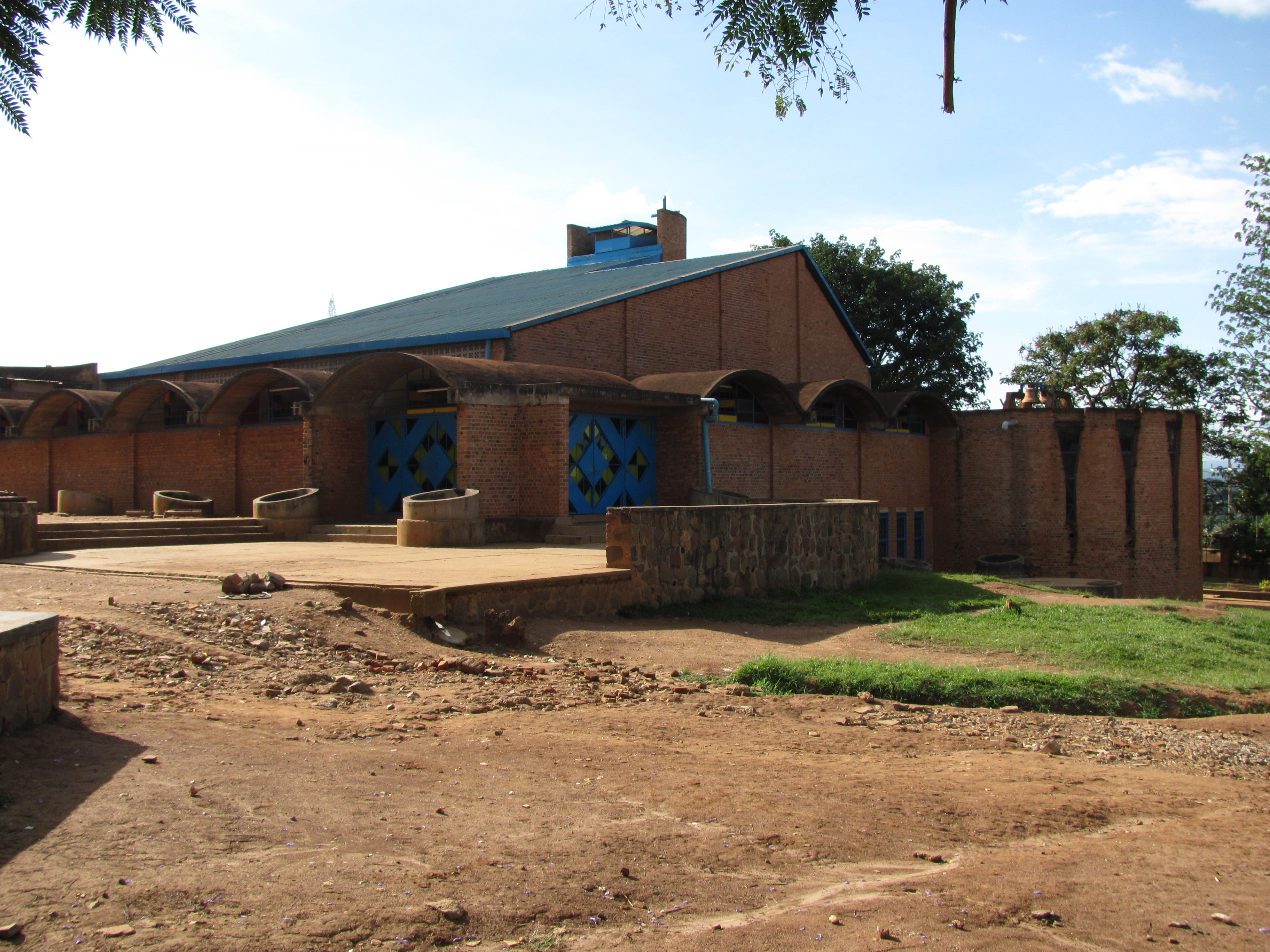 Church in Gikondo (Rwanda) - site of the Gikondo massacre